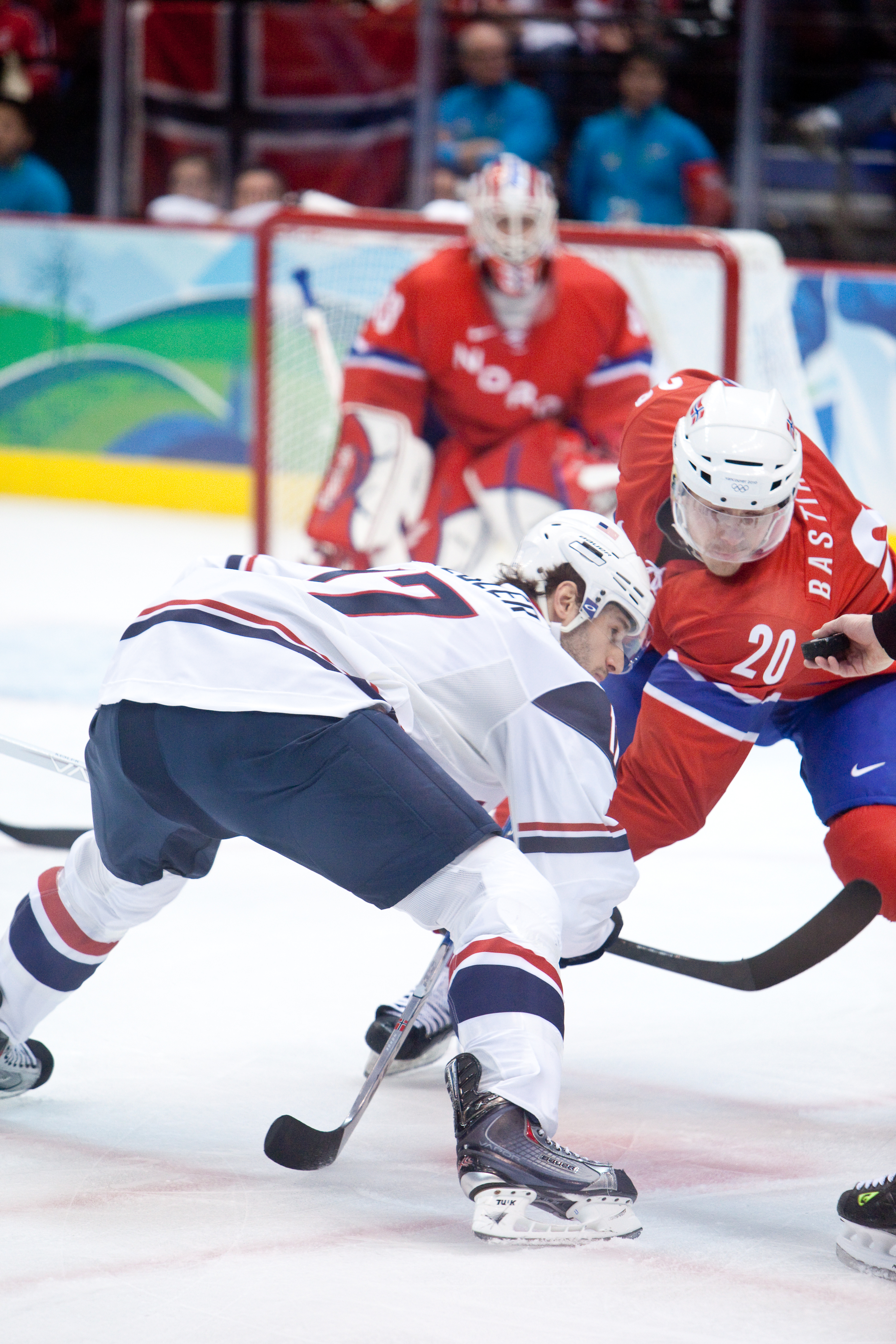 Anders Bastiansen of Norway and Ryan Kesler of the United States face off during the 2010 Winter Olympics